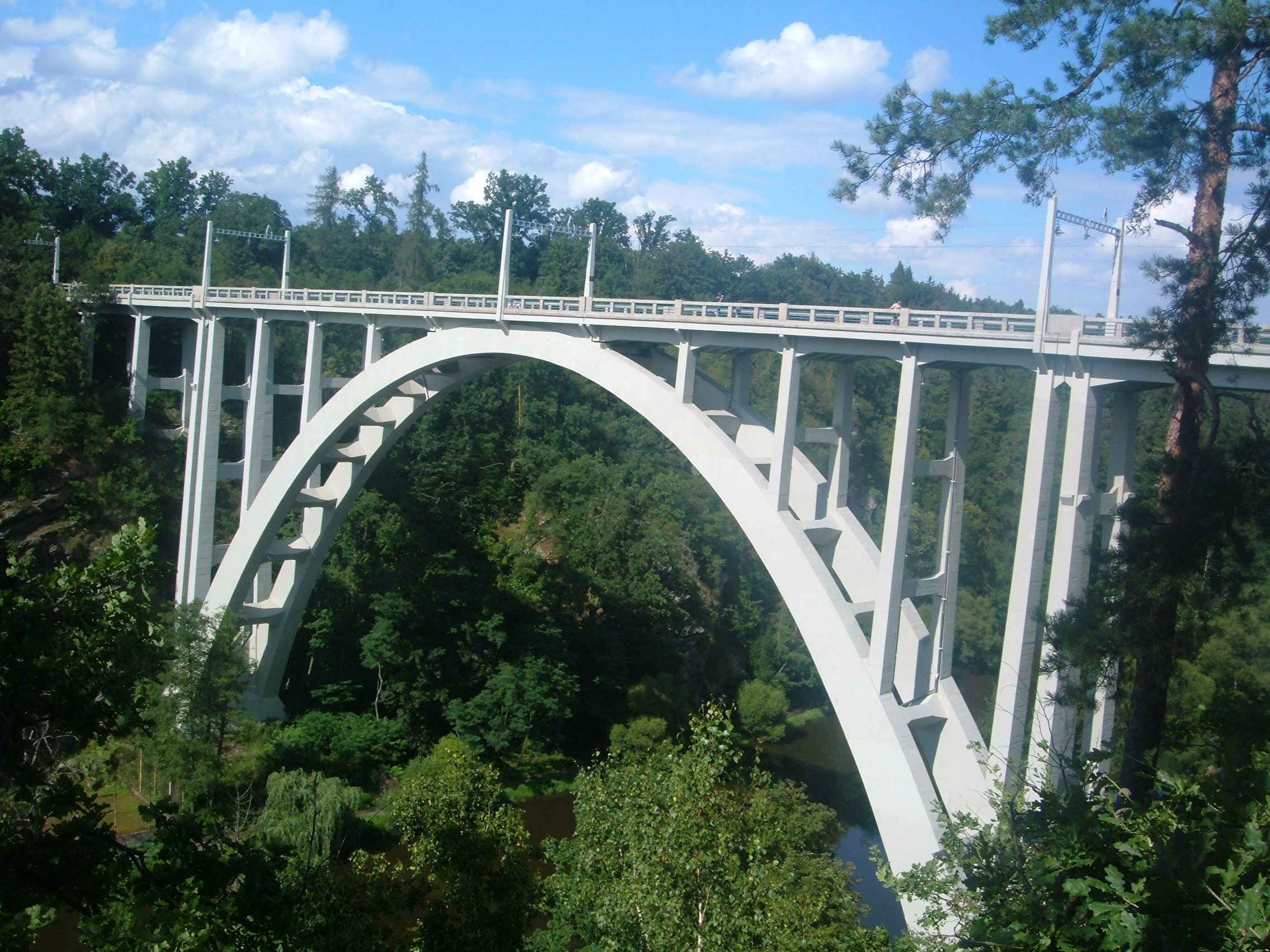 own work